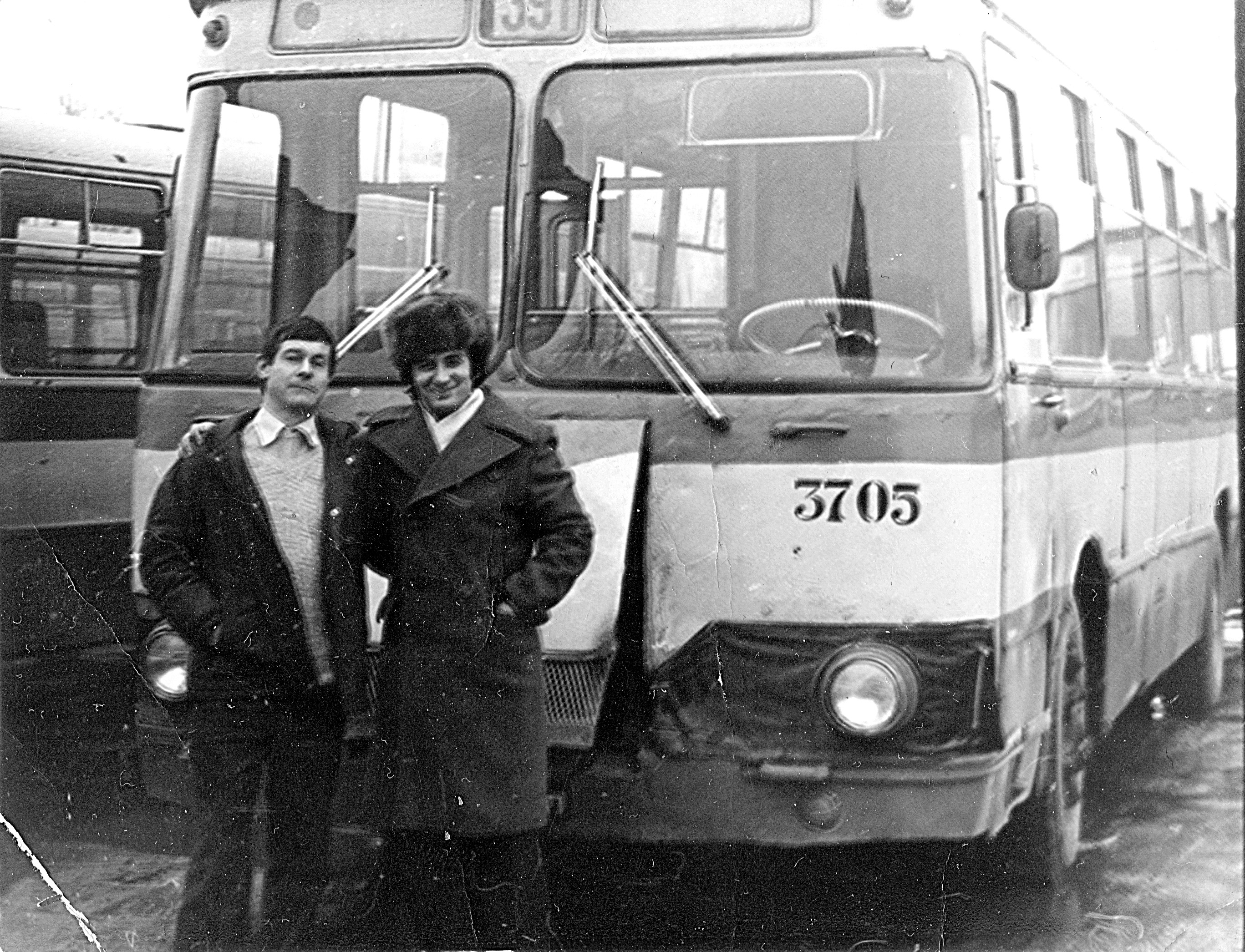 Drivers of the Kolpino bus depot (Anatoly Krizhanovsky and Alexander Bondarenko), the third park and the seventh column are indicated in the bus number 3705, 391 route. LiAZ-677, 1985, Kolpino.